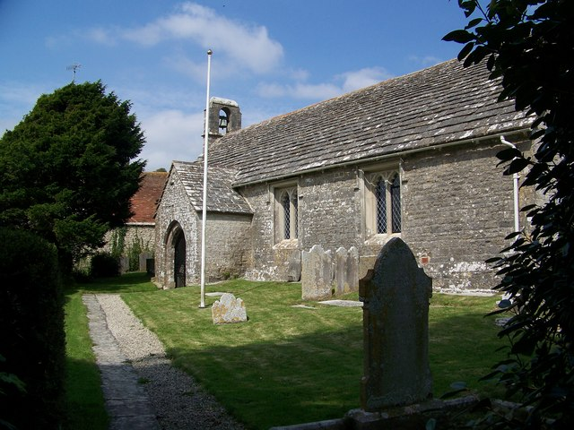 St Nicholas' Church, Kimmeridge Although Kimmeridge Church was largely rebuilt in 1872, one can assume that its outward appearance has not greatly changed since the building of the original Norman building.